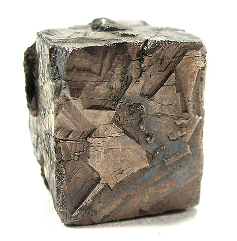 Cobaltite Locality: Espanola, Ontario, Canada Size: thumbnail, 1.6 x 1.4 x 1.1 cm Cobaltite This is quite simply the largest sharp cubic cobaltite I have seen from these famous old deposits in Canada, and more than that, i cannot think of as large and sharp a cubic Cobaltite from any other locality (the classic Swedish crystals having another habit entirely). An IMPRESSIVE and significant rarity! 1.6 x 1.4 x 1.1 cm